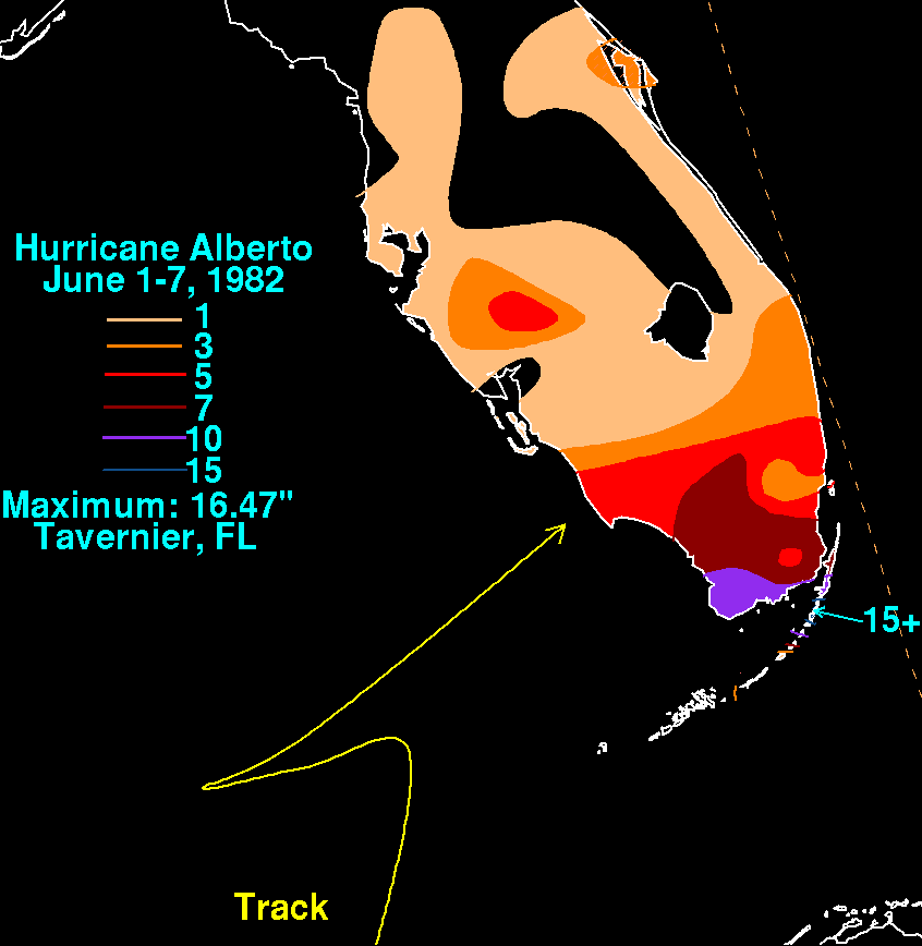 Storm total rainfall map of Hurricane Alberto during June 1982.